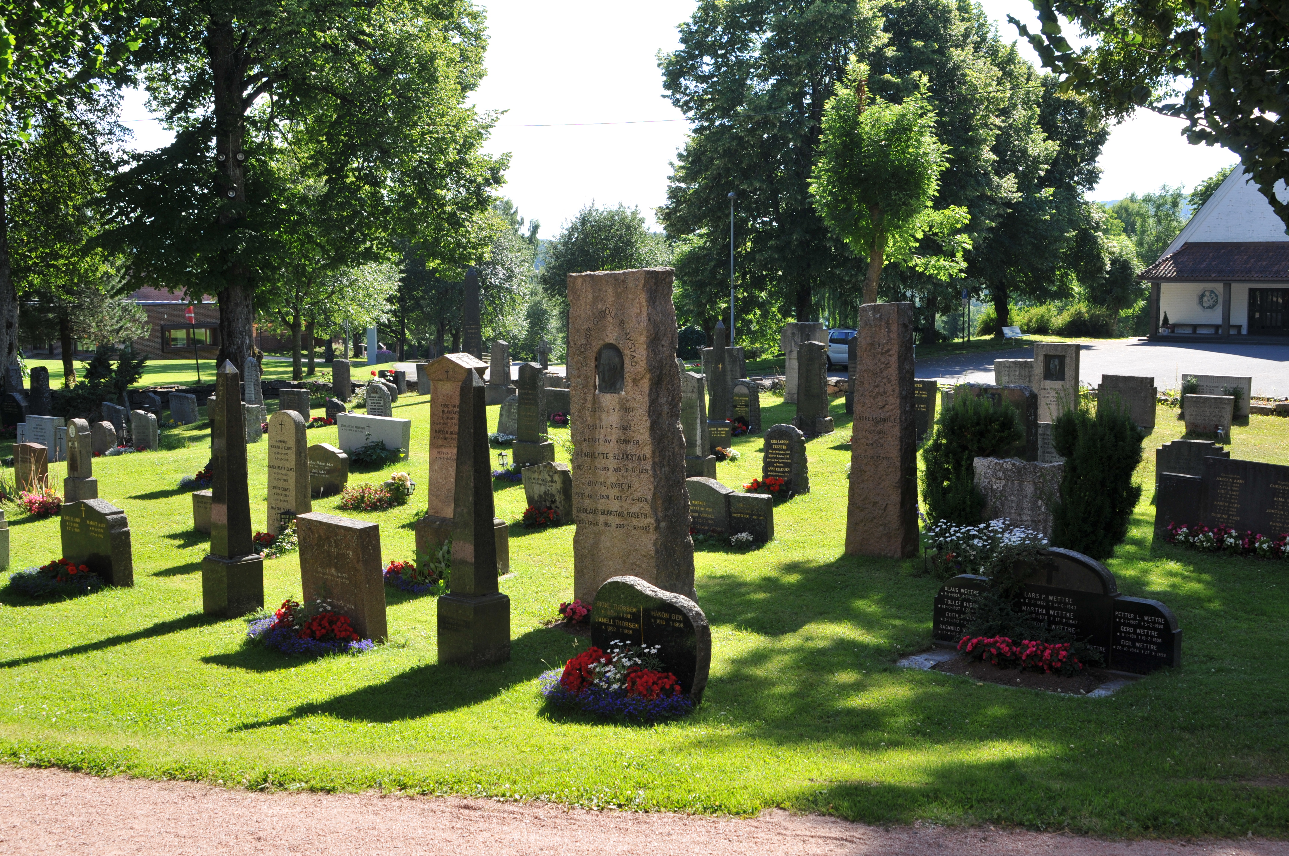 Asker Cemetary, Asker, NorwayNorsk bokmål: Asker kirkegård, Asker, Norge